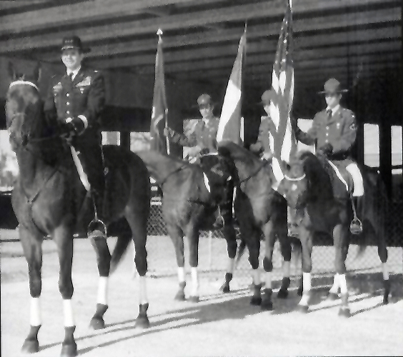 LTG William B. Caldwell, III at Fort Sam Houston, San Antonio